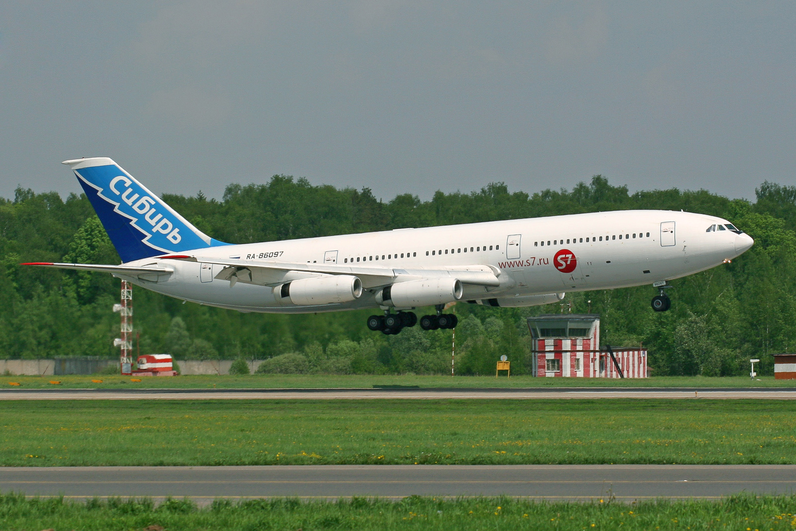 An S7 Siberia Airlines Ilyushin Il-86 lands at Domodedovo International Airport (DME / UUDD)